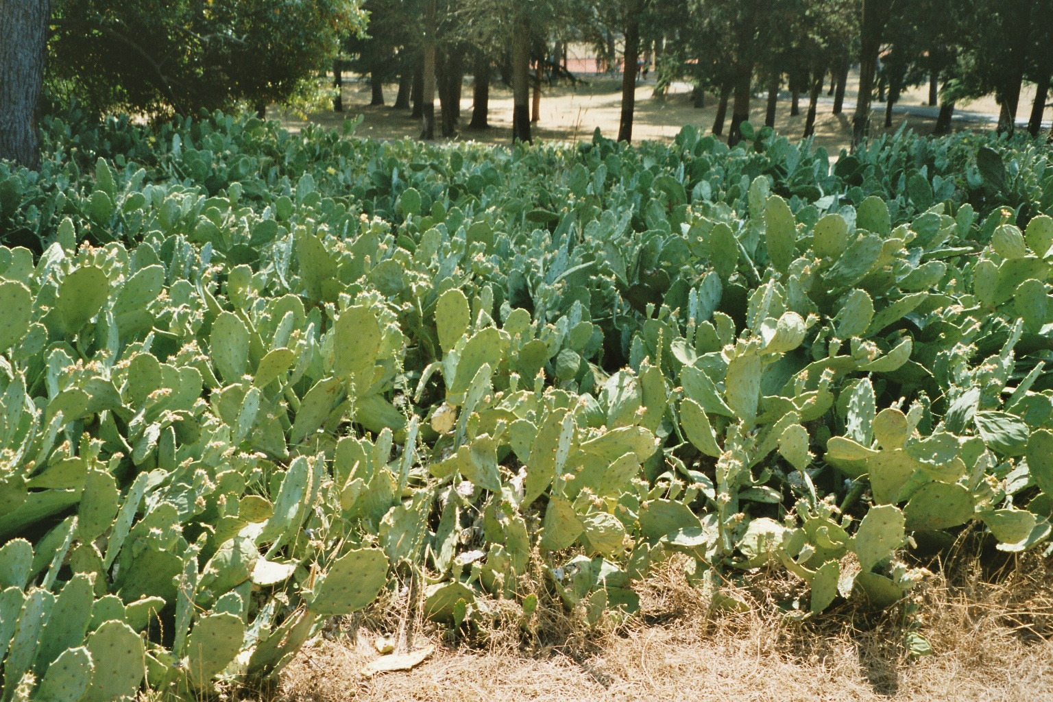 Cactuses at Briuni